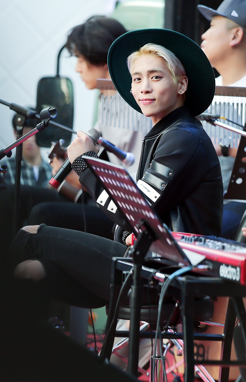 Jonghyun at Guerilla Date on September 18, 2015.